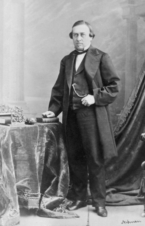 Photograph, Hector L. Langevin, Montreal, QC, 1865, William Notman (1826-1891), Silver salts on paper mounted on paper - Albumen process - 8.5 x 5.6 cm